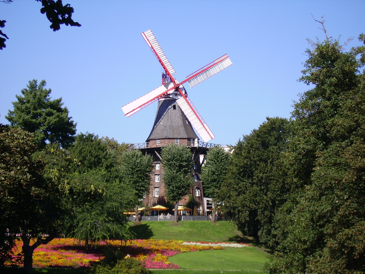 A windmill in the centre of Bremen